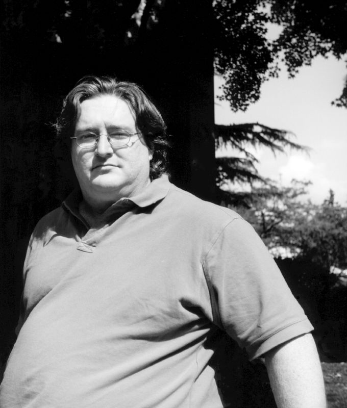 Gabe Newell, co-founder and managing director of Valve Corporation.